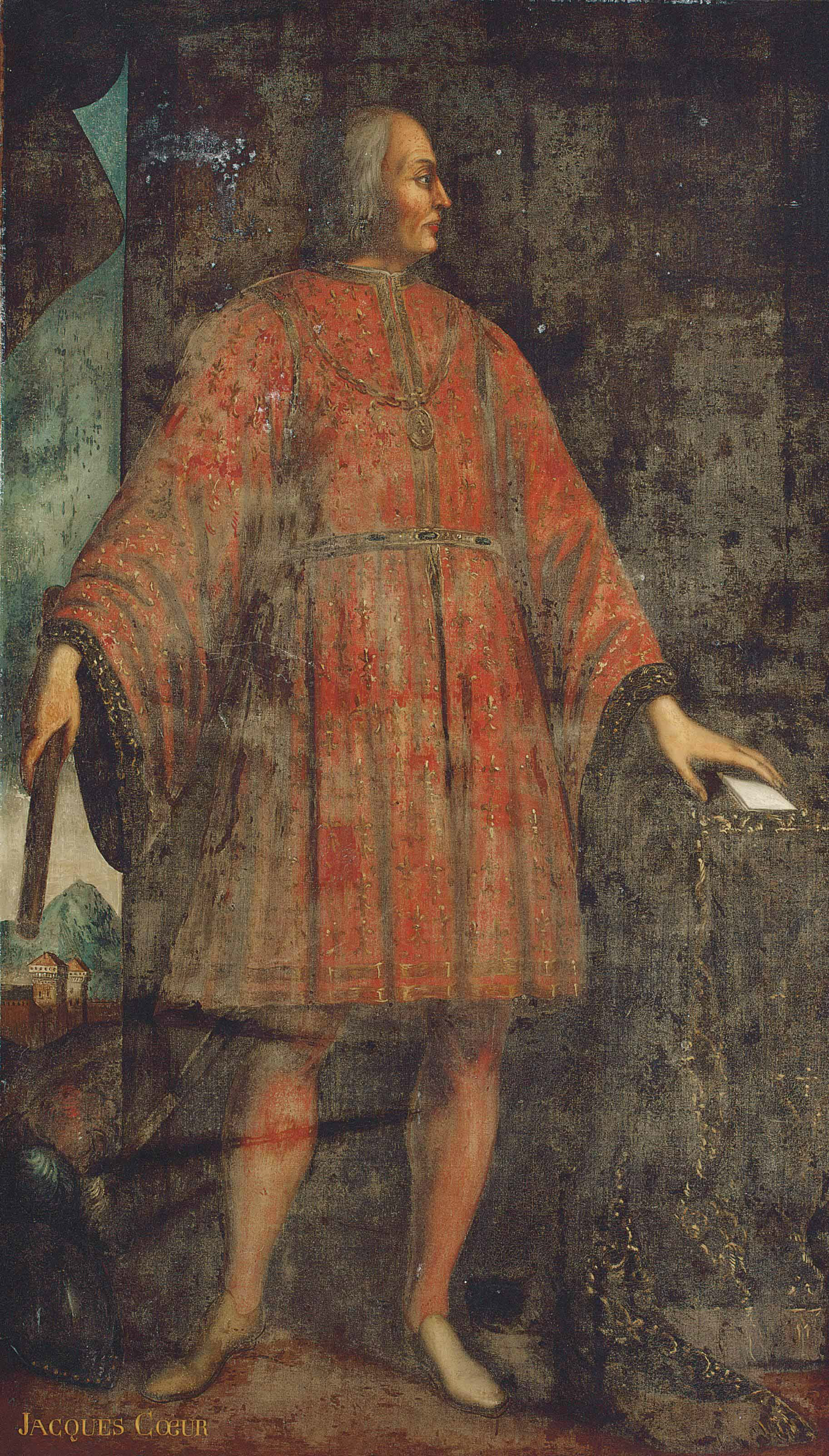 Jacques Coeur (Bourges c. 1395-1461 Chios) inscribed b.l: JACQUES COEUR oil on canvas 191 x 111.8 cm